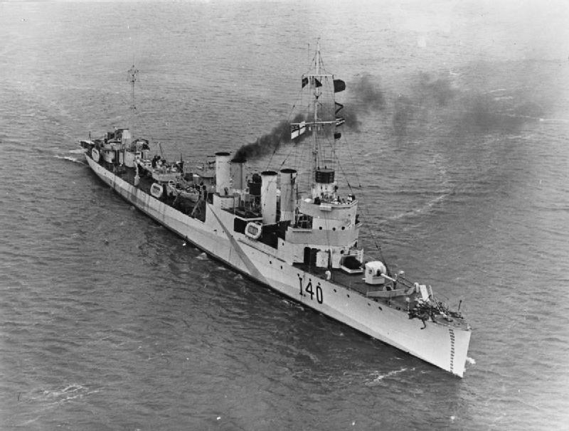 HMS Georgetown Underway leaving Charleston, South Carolina, USA.